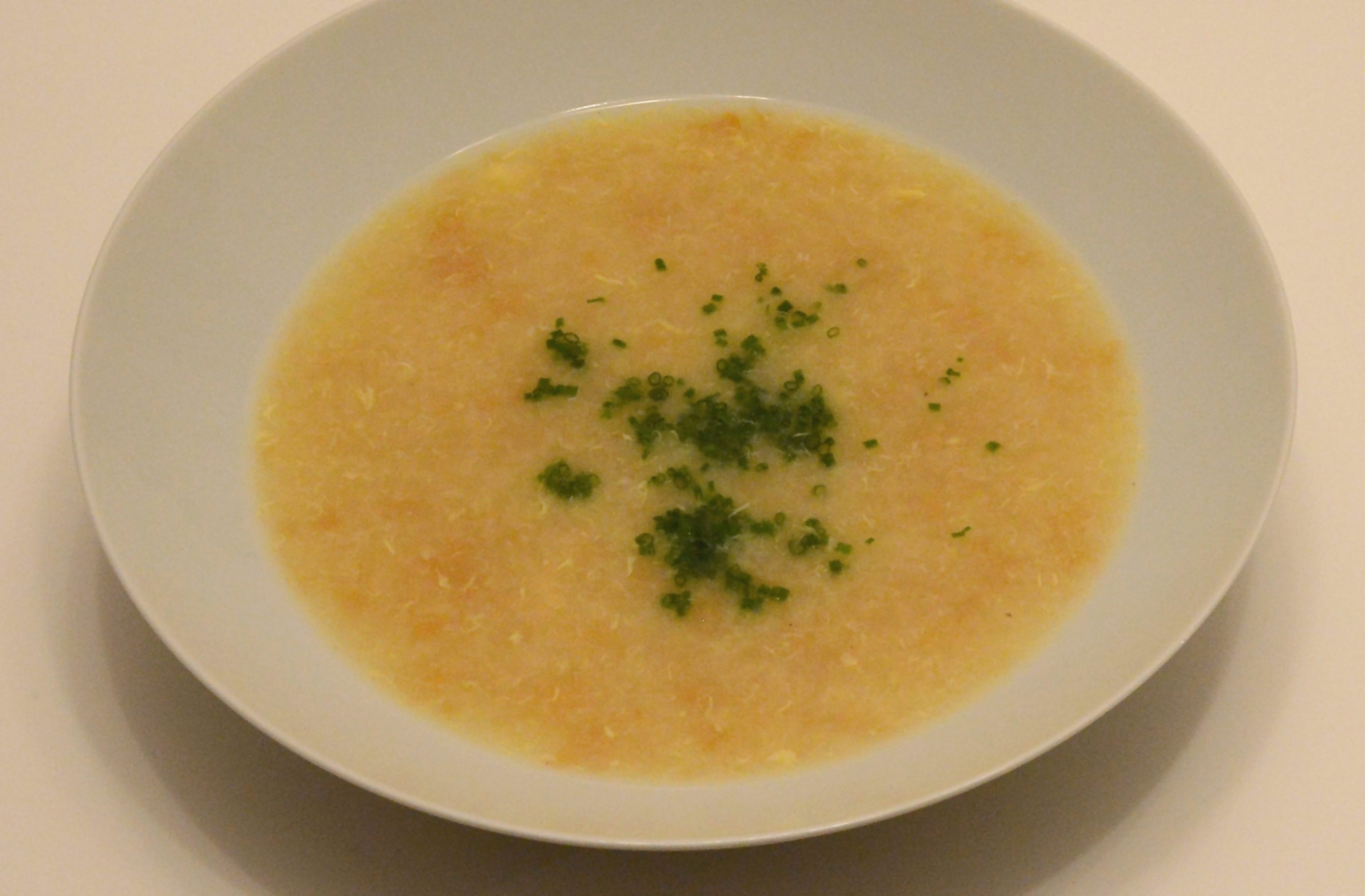 Panadelsuppe (thickened with yolk). Cooking recipe from Johann Werfring, published in „Wiener Zeitung“, 18 January 2019, Beilage „Wiener Journal“, p. 36–37, Online